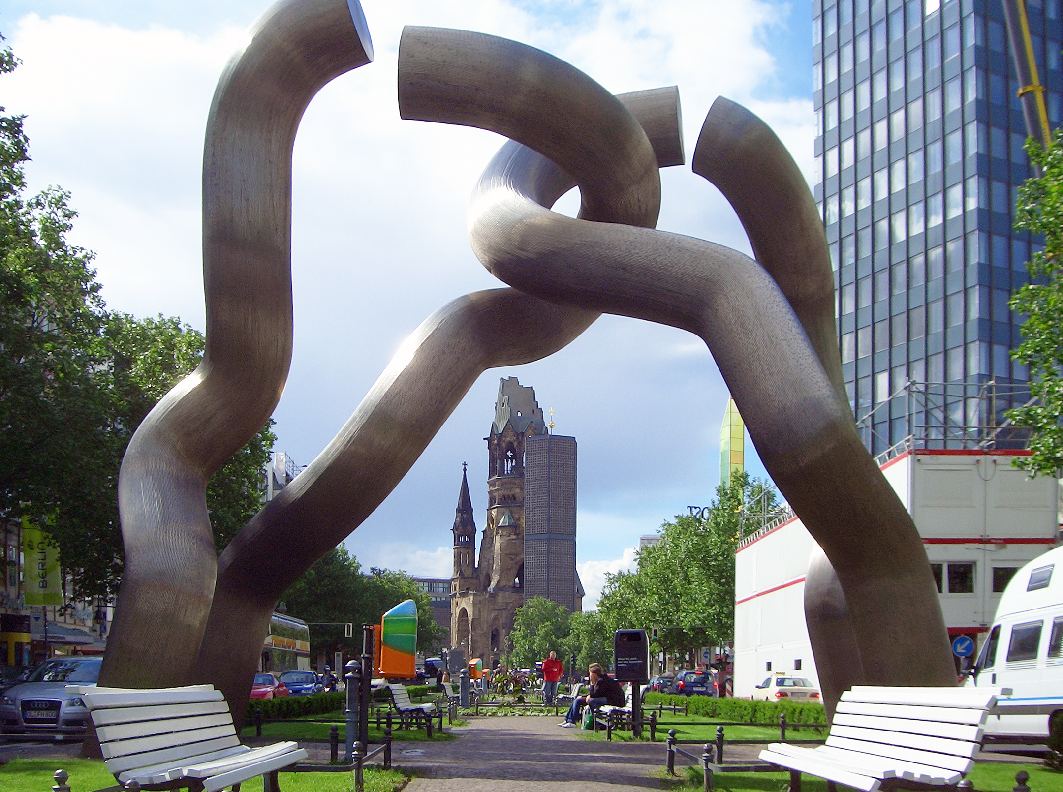 Monumental sculpture “Berlin” in the Tauentzien street of Berlin. This was designed by German sculptors couple Martin Matschinsky and Brigitte Matschinsky-Denninghoff, consists of chromium-nickel-steel pipes and was inaugurated in 1987.